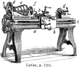 Lathe